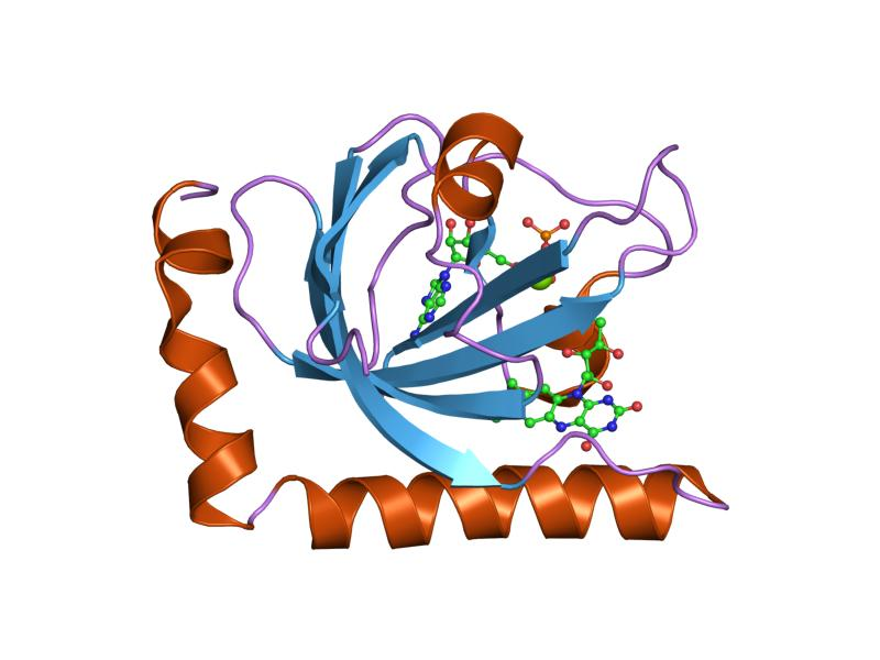 Cartoon representation of the molecular structure of protein registered with 1nb9 code.